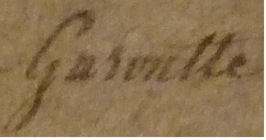 This is the handwritten Signature of Michael Antoine Garoutte taken from his notes in The Garoutte Family Bible.